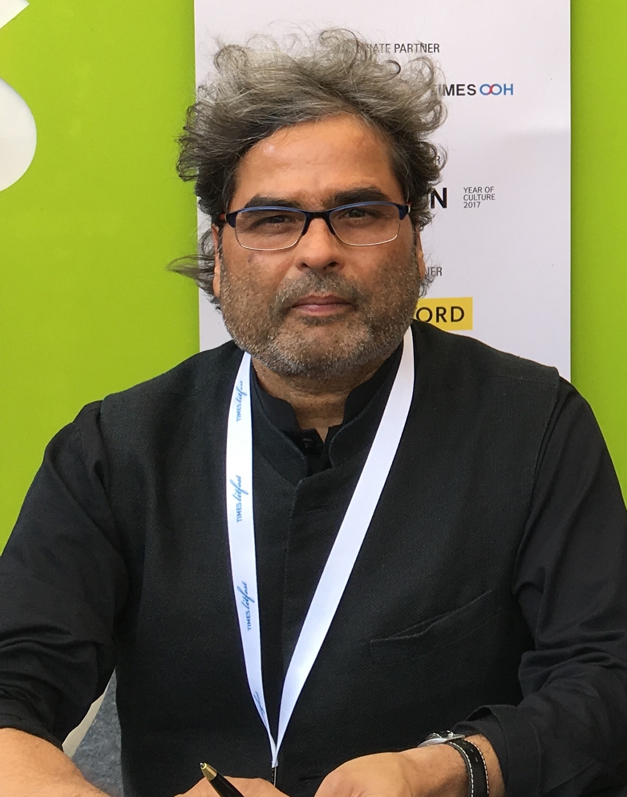 Vishal Bhardwaj in 2017